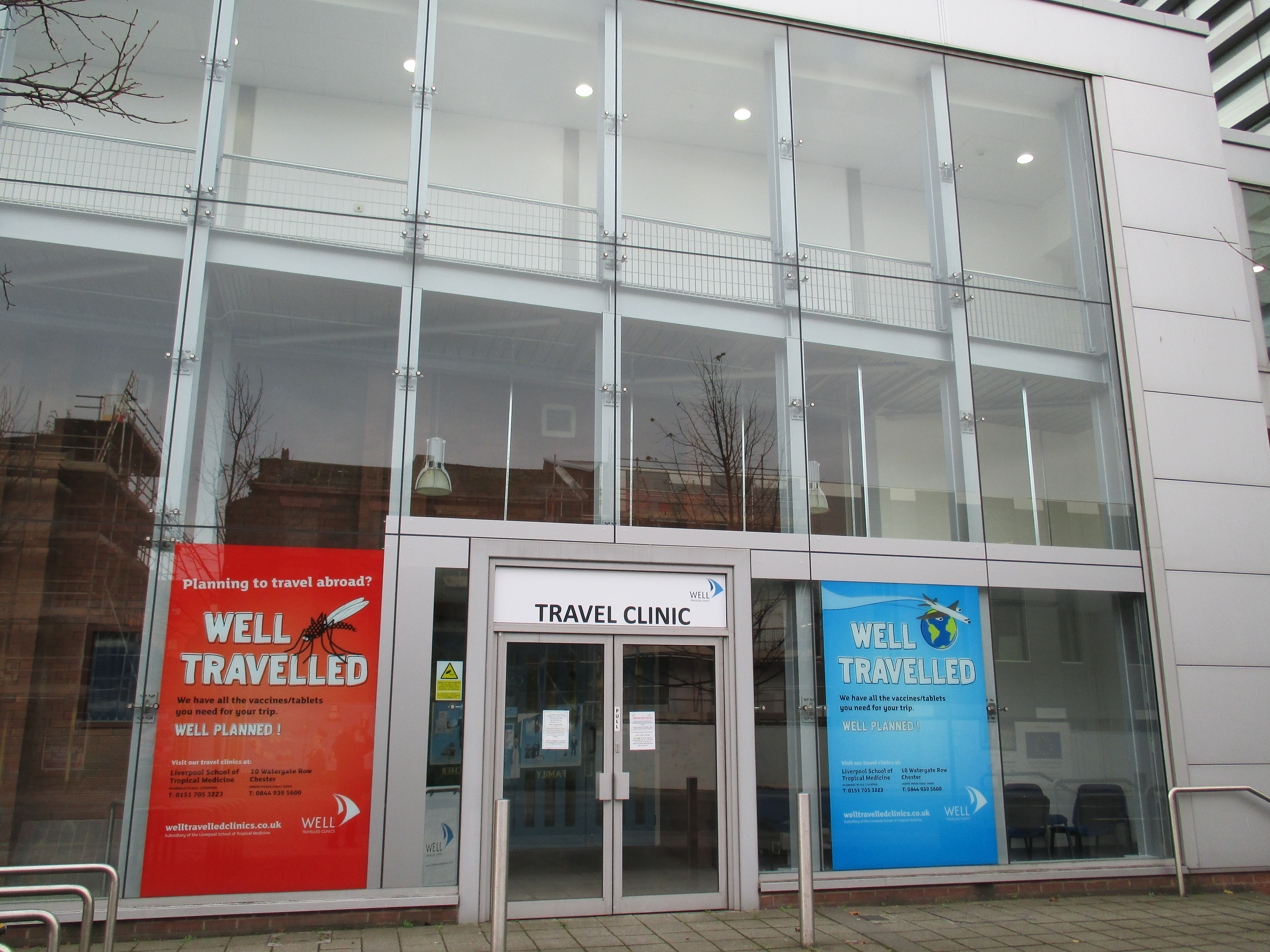 Travel Clinic at The Liverpool School of Tropical Medicine.